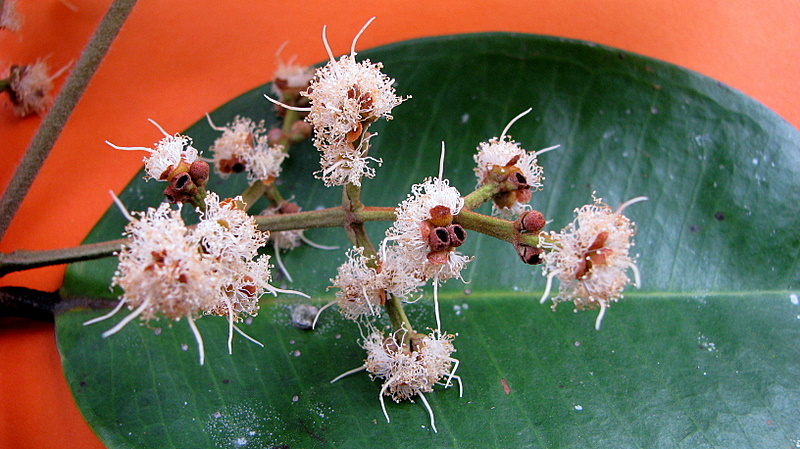 Calyptranthes clusiifolia O. Berg